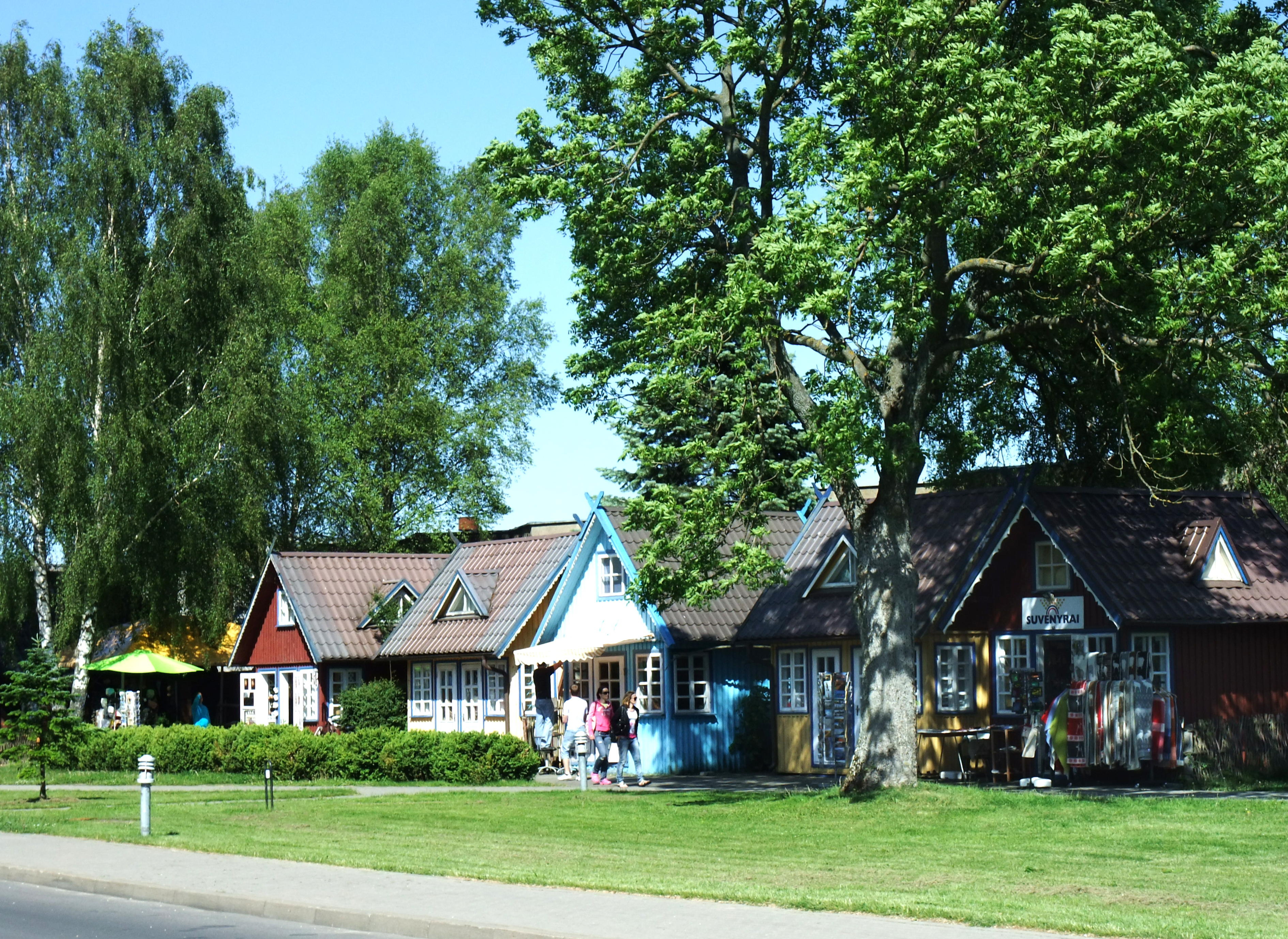 Houses in Nida, Lithuania